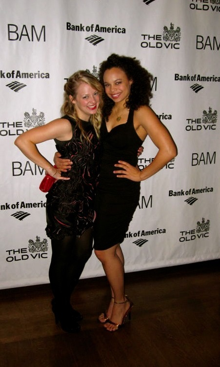 Bridge Project Opening with Michelle Beck (Celia) and Jenni Barber (Audrey)